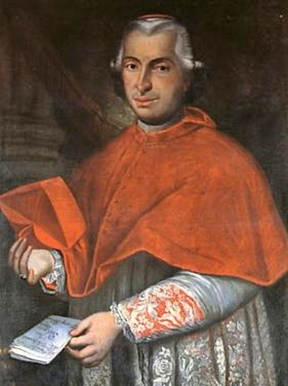 Kardinal Diego Innico Caracciolo (1759-1820)